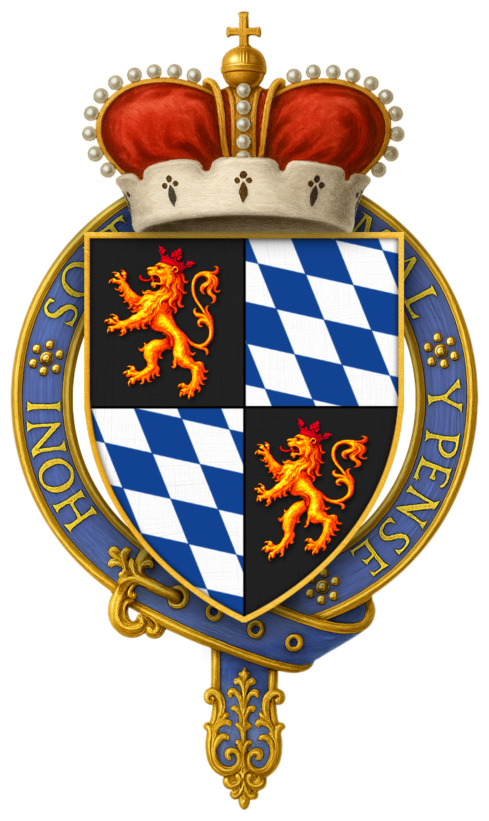 Coat of arms of Rupert, Count Palatine of the Rhine, KG